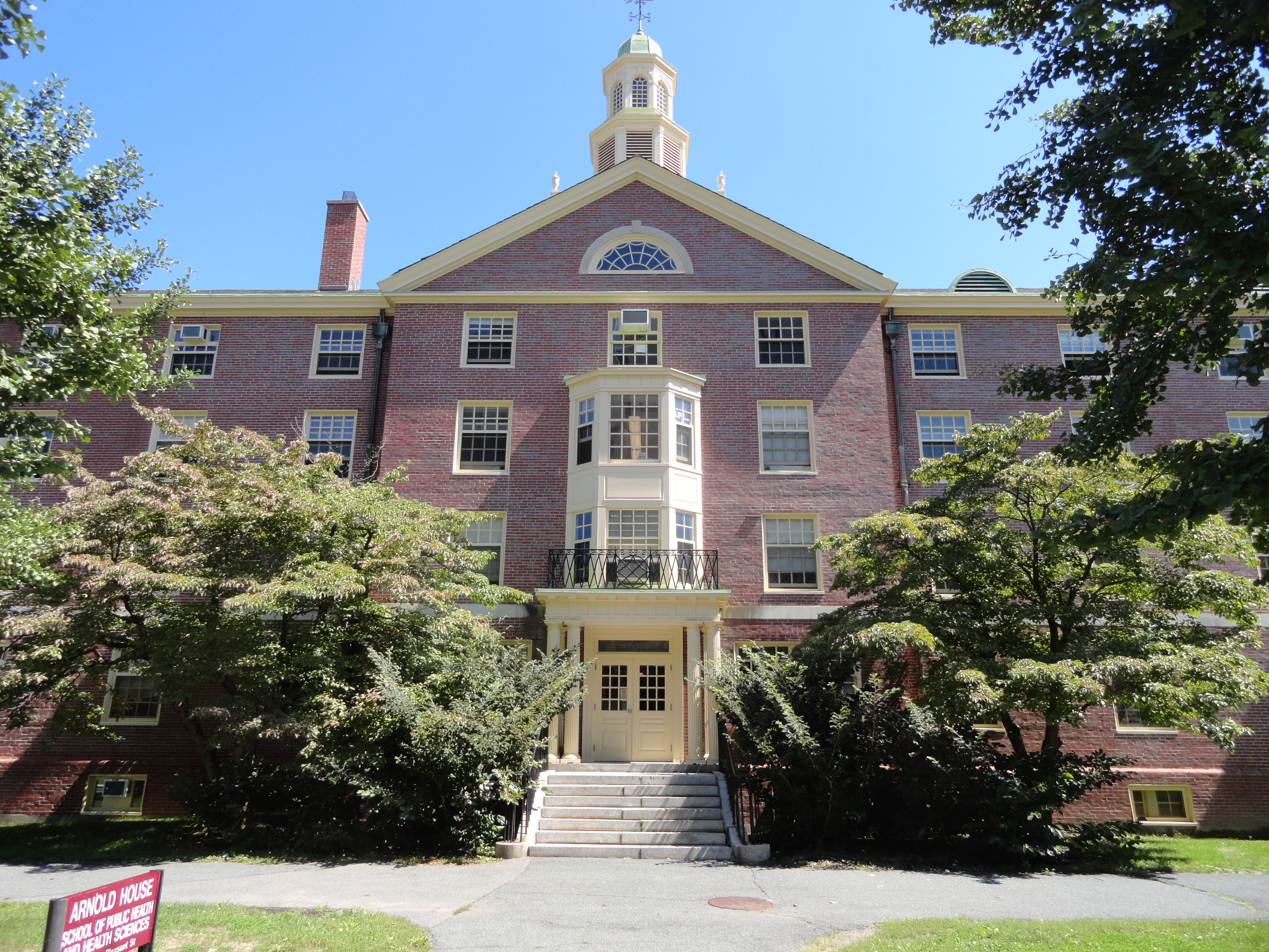 The Sarah L. Arnold House at the University of Massachusetts Amherst.